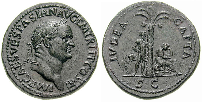 VESPASIAN. 69-79 AD. Æ Sestertius (26.30 gm). "Judaea Capta" issue. Struck 71 AD. IMP CAES VESPASIAN AVG P M TR P P P COS III, laureate head right / IVDEA [CAPTA], S C in exergue, Jewess in attitude of mourning, seated left beneath palm tree; to right, captive Jew with hands tied behind back standing left; captured weapons behind. RIC II 426; BMCRE 542; BN 494; Cohen 238. Good Fine, reddish brown patina, spotty surfaces, roughness on reverse.